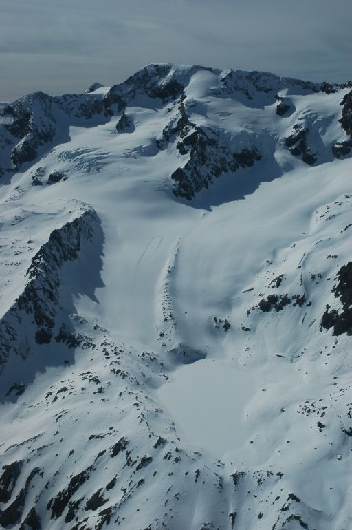 Pic Bayle (3465m), east face. With Glacier des Malatres, Glacier des Quirlies and Lac des Quirlies